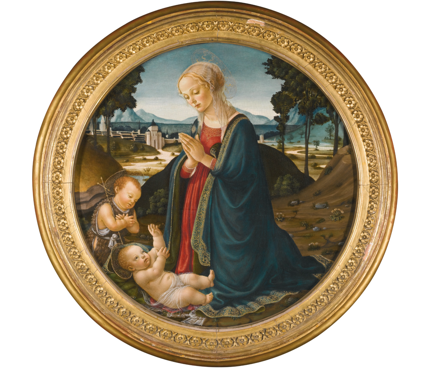 Painting by Francesco Botticini